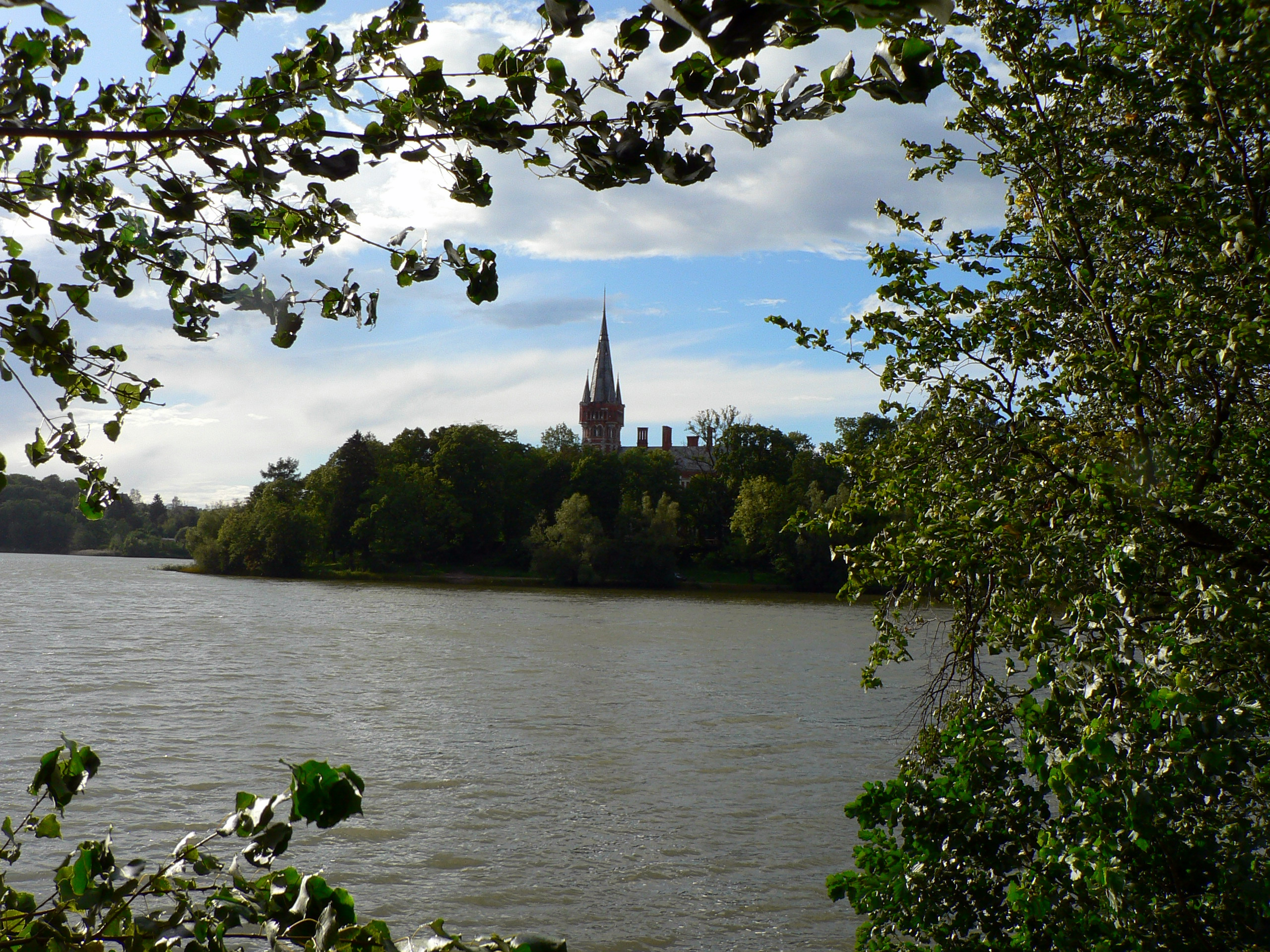 Tyszkiewicz Palace on Lentvaris Lake, Lentvaris, Lithuania